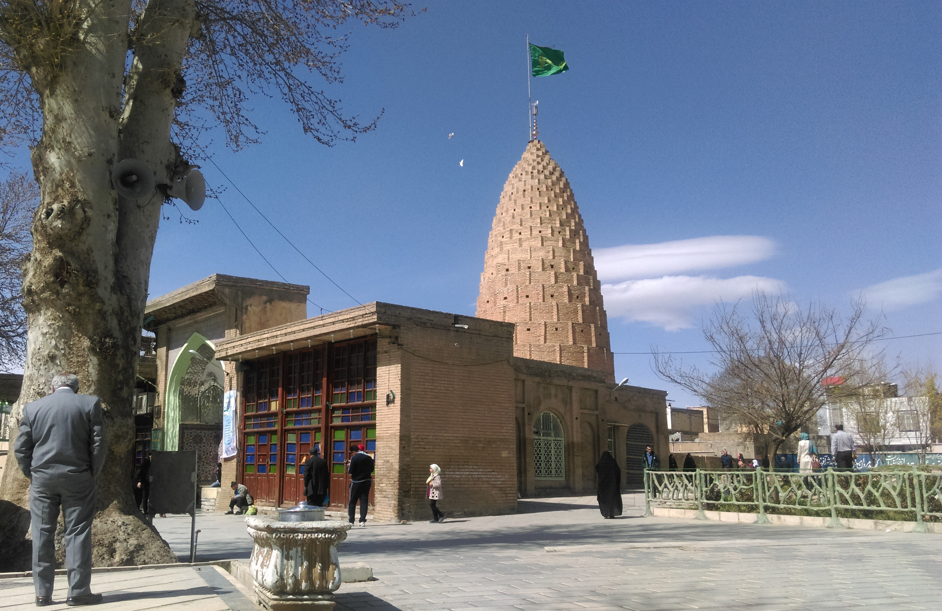 Shrine of Imamzadeh Jafar, Borujerd, Iran.